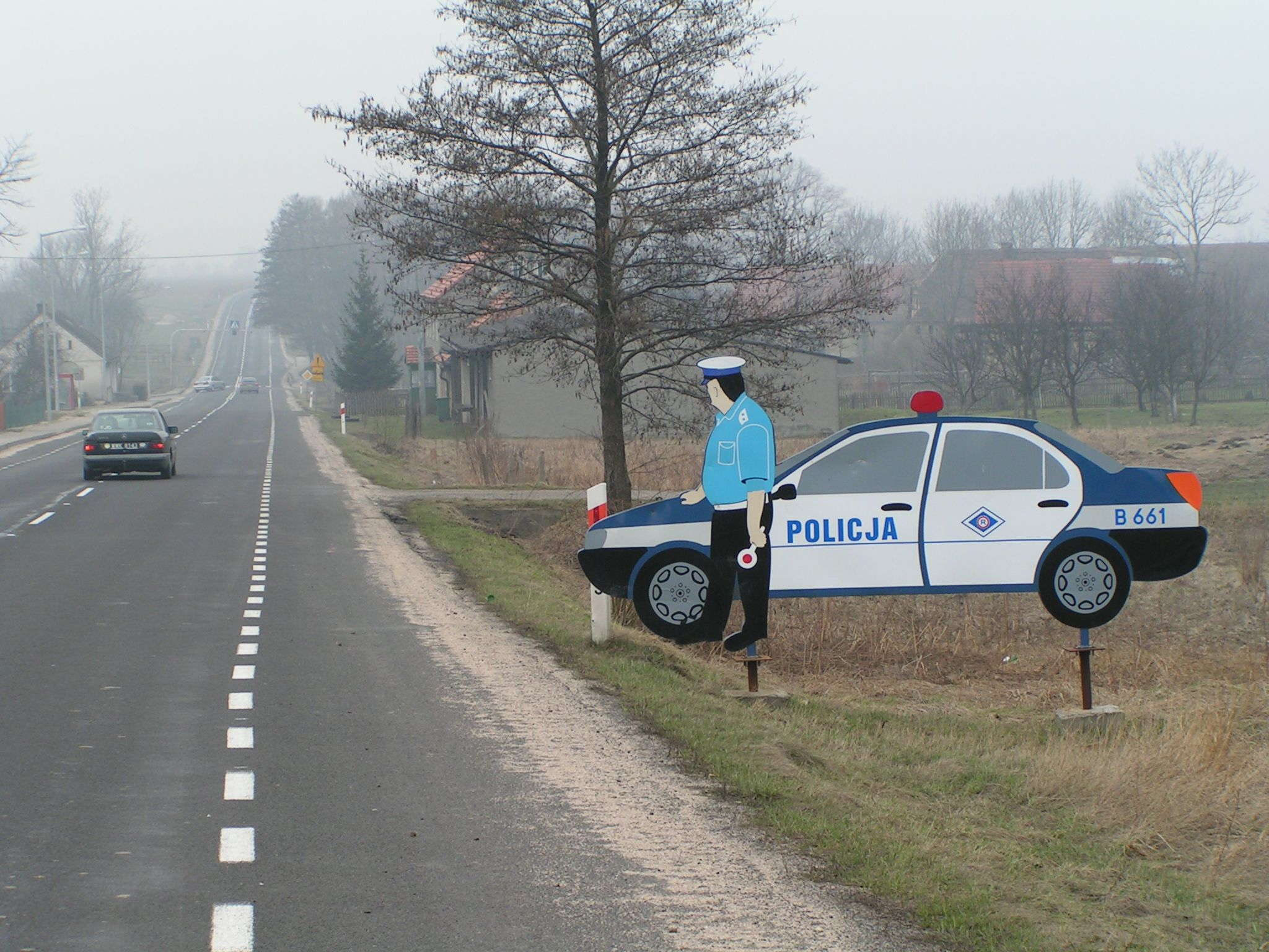 dummy of a police car in Bialogorze (E30), Poland